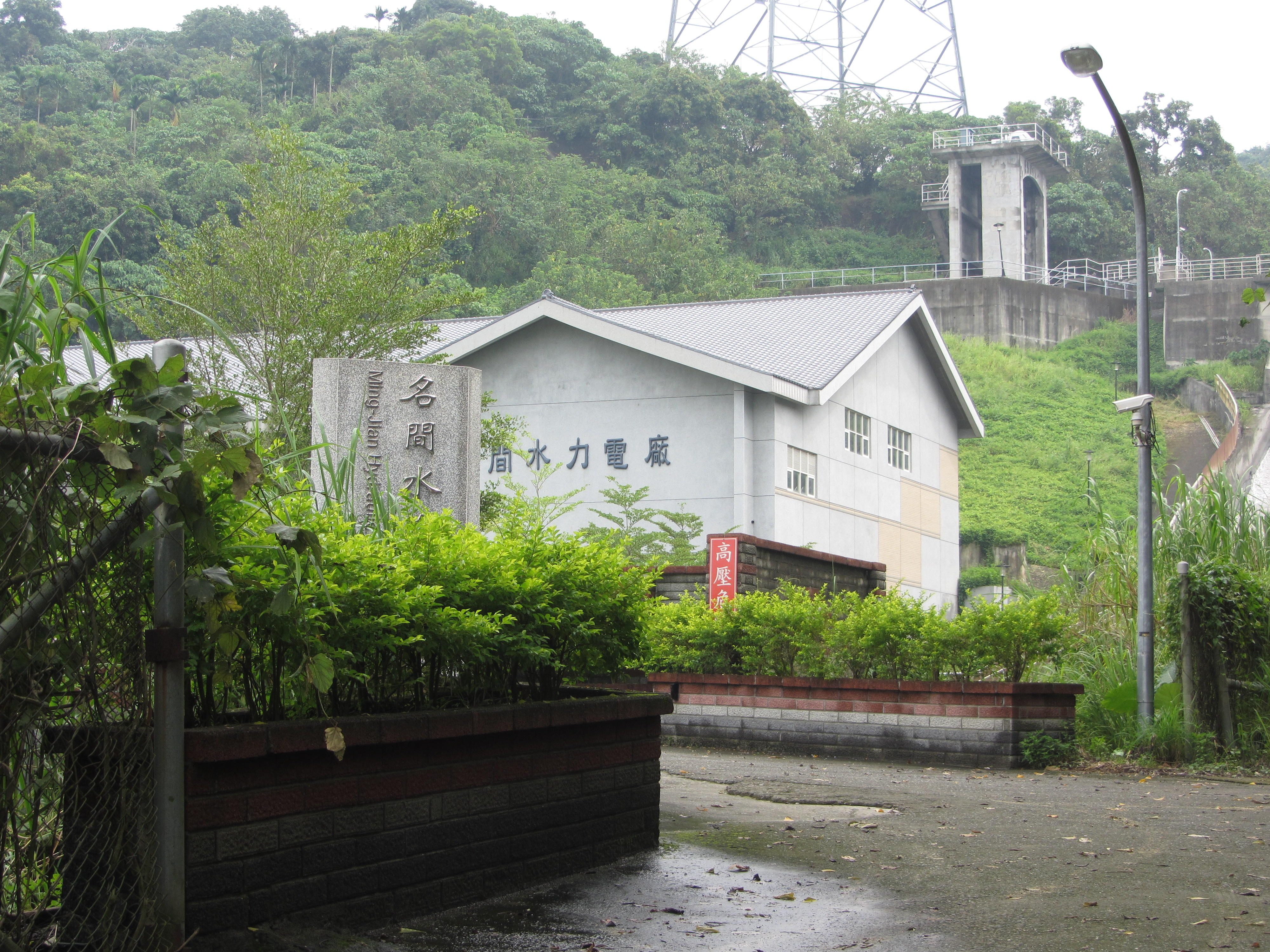 Ming-Jian Hydro Power Plant